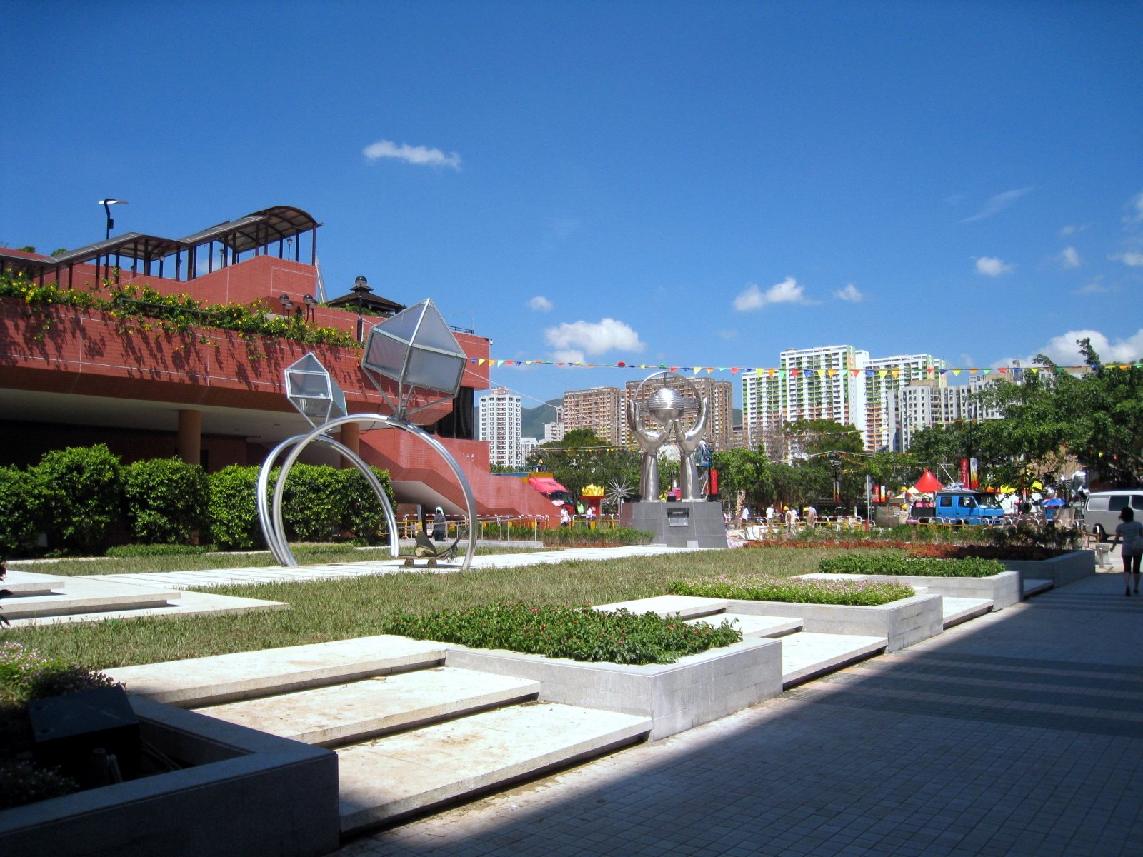 HK City Art Square Area 1 城市藝坊